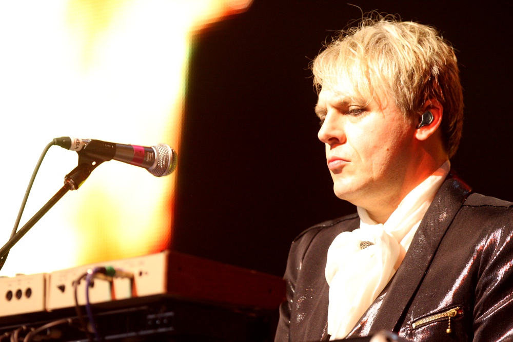 Duran Duran Rock Sydney Entertainment Centre, Australia